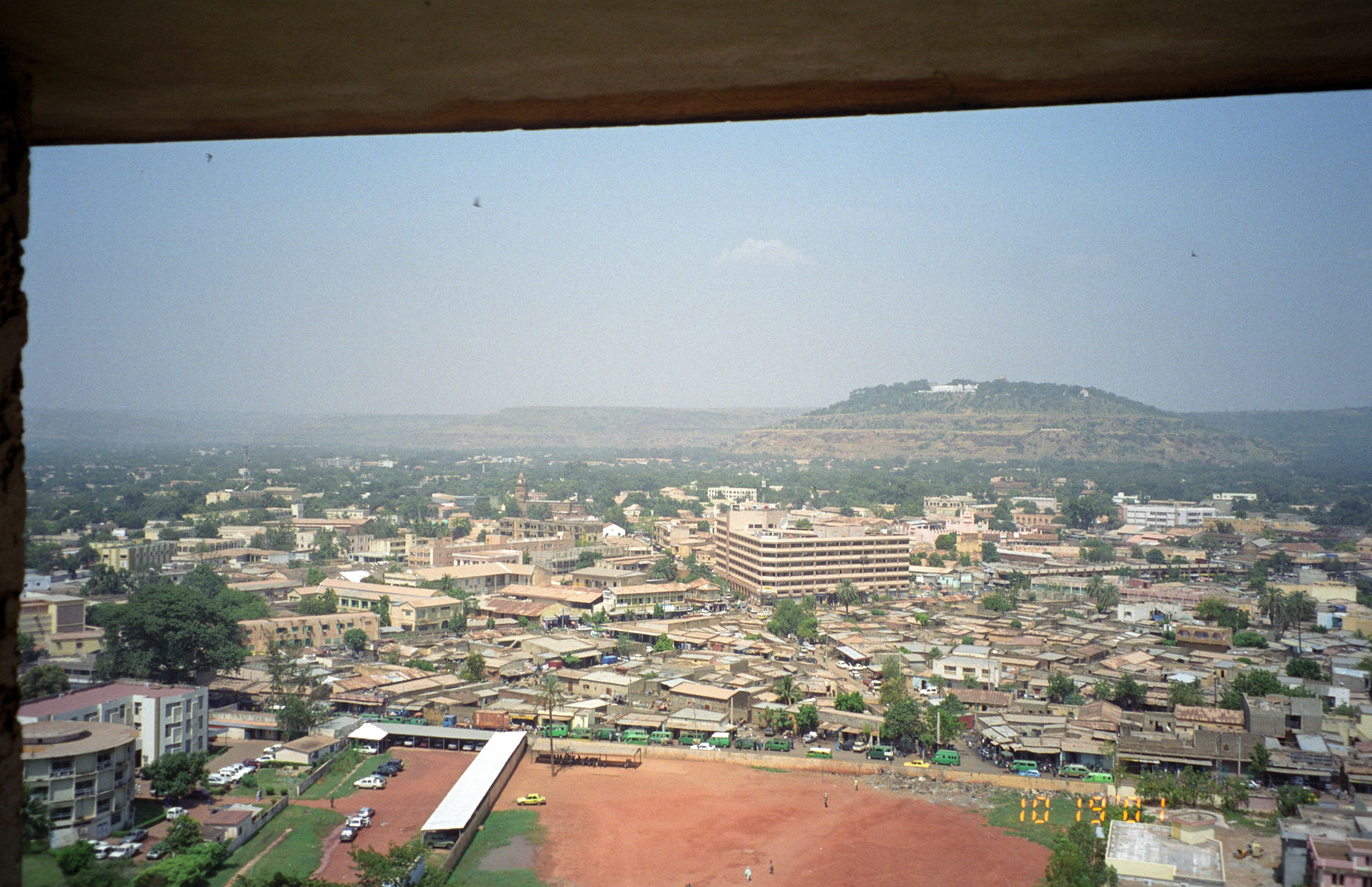 another nice view from the hotel's top floor